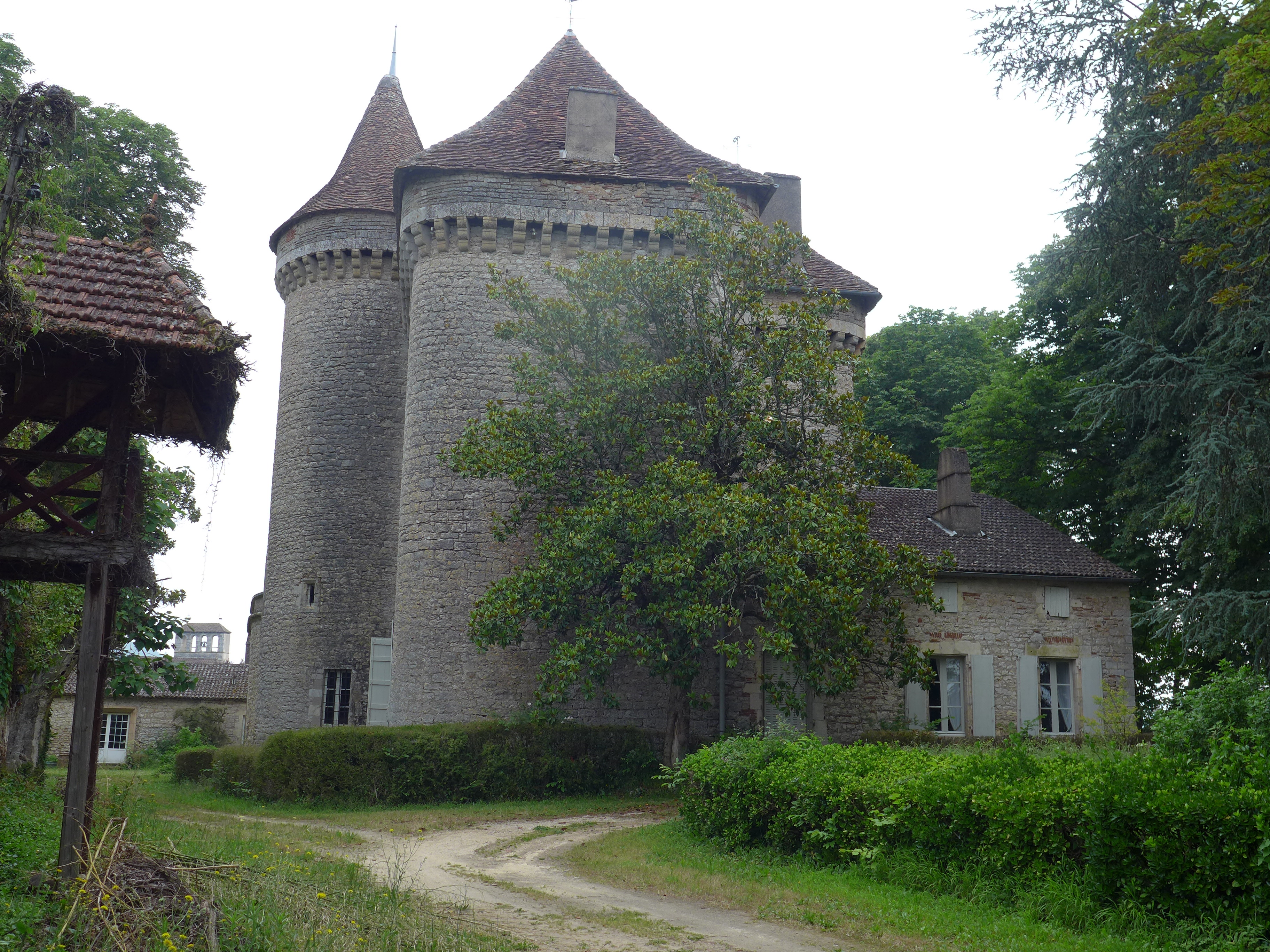 Anglars-Juillac - Castle of Anglars